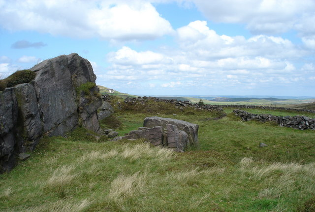 Oliver Hill Near the top of Oliver Hill, this little outcrop has been quarried in the past. The views on a day like this are uplifting.